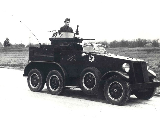 An M1/T4 Armored Car of A Troop, 1st US Cavalry Regiment during type testing in 1931.